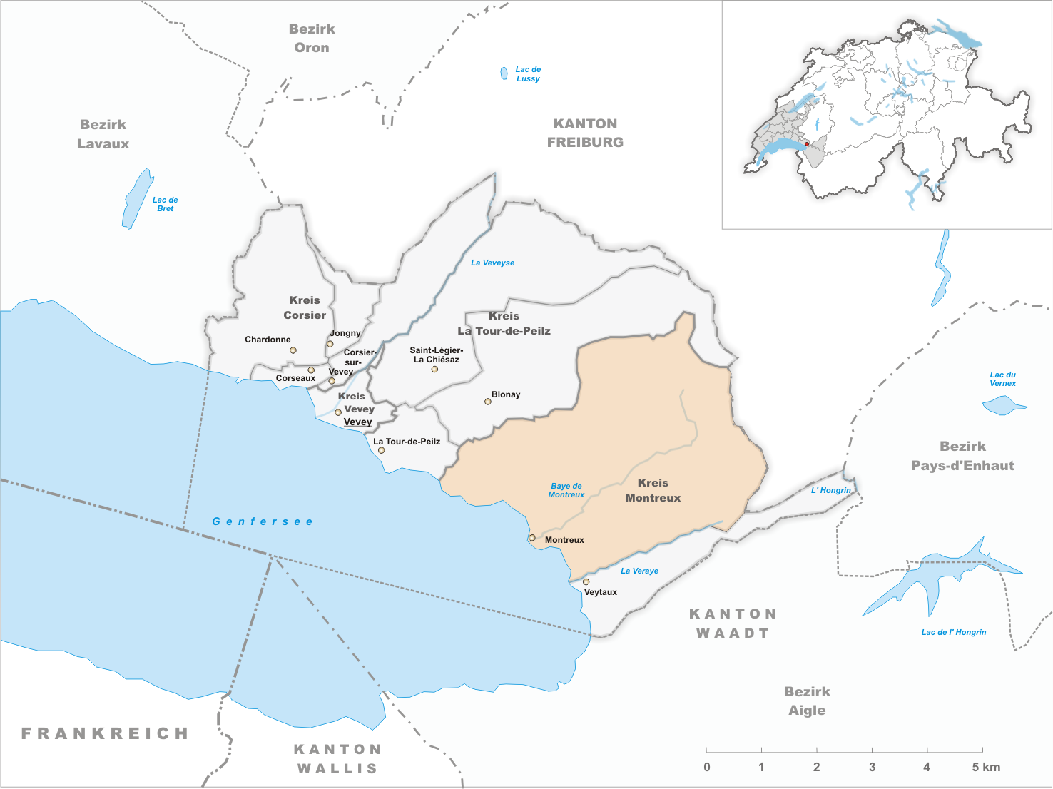 Municipality Montreux